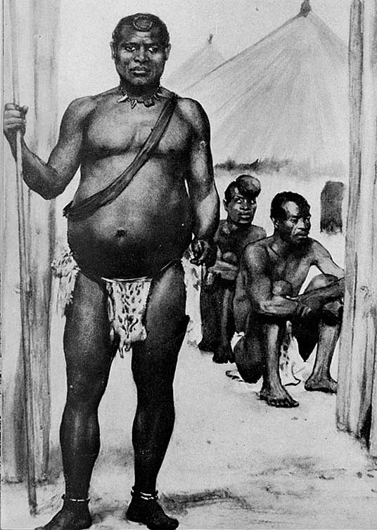 Picture of King Lobengula of the Matabele; by Ralph Peacock, based on a sketch by E. A. Maund. Published by Rhodesian National Archives c1950.